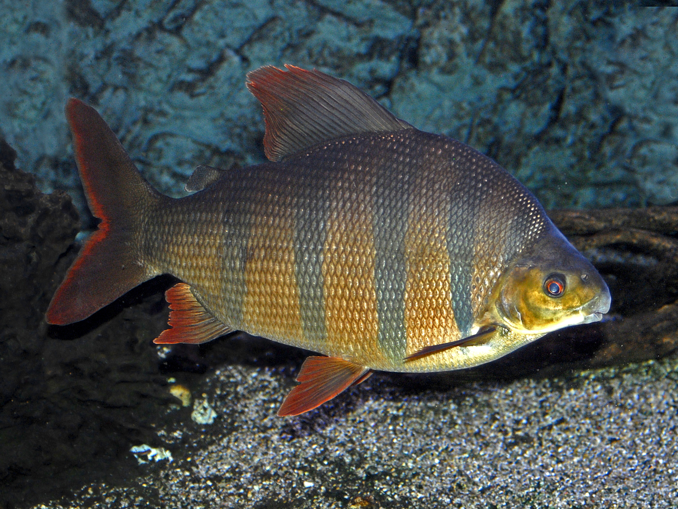 Distichodus sexfasciatus, on display at the Museo di Storia Naturale e del Territorio, Calci (Province Pisa), Italy